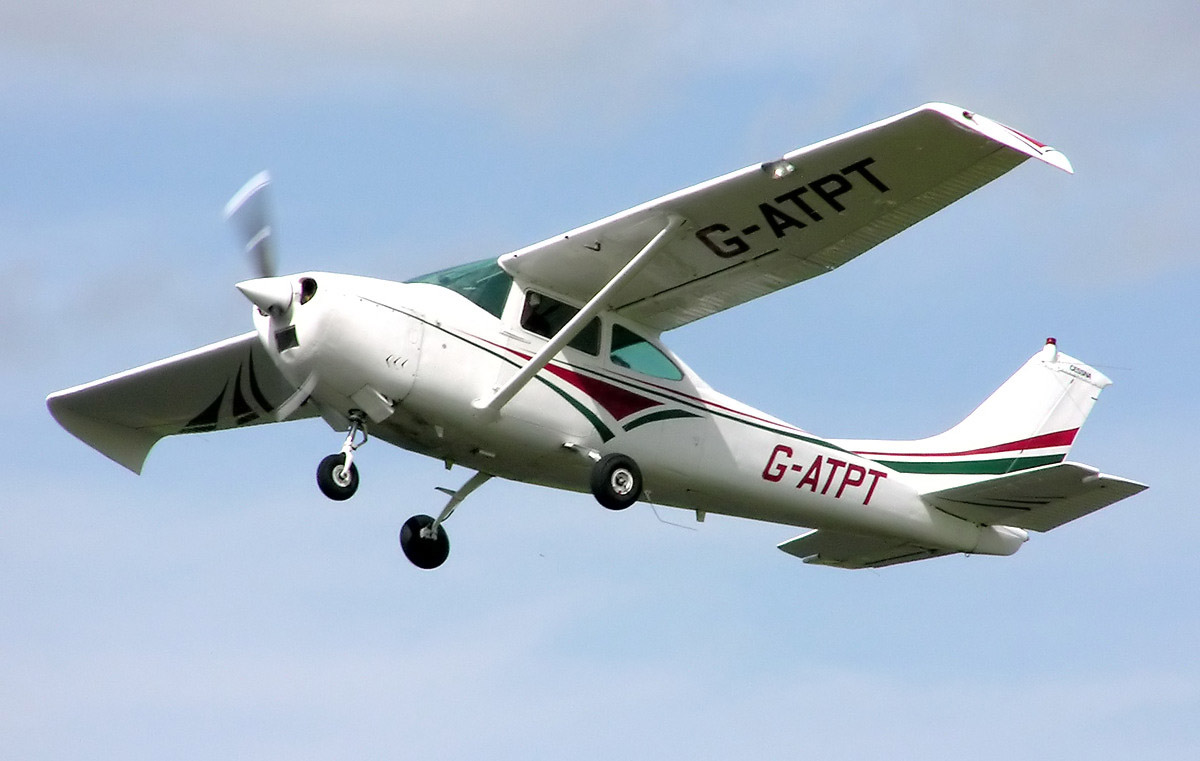 Cessna 182J Skylane (UK registration G-ATPT, built 1966) at Kemble Airfield, Gloucestershire, England. Photographed by Adrian Pingstone in July 2005 and released to the public domain.